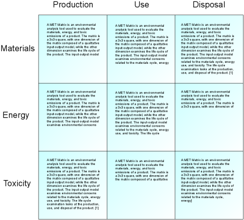 Diagram of MET Matrix, used for analysis of materials, energy, and toxicity concerns over the life cycle of a product.